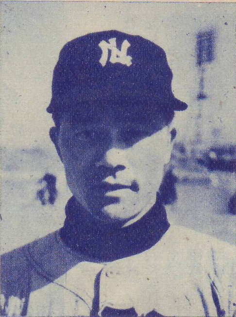 Chiko Yatsunami (Nishitetsu Lions). taken in 1955.